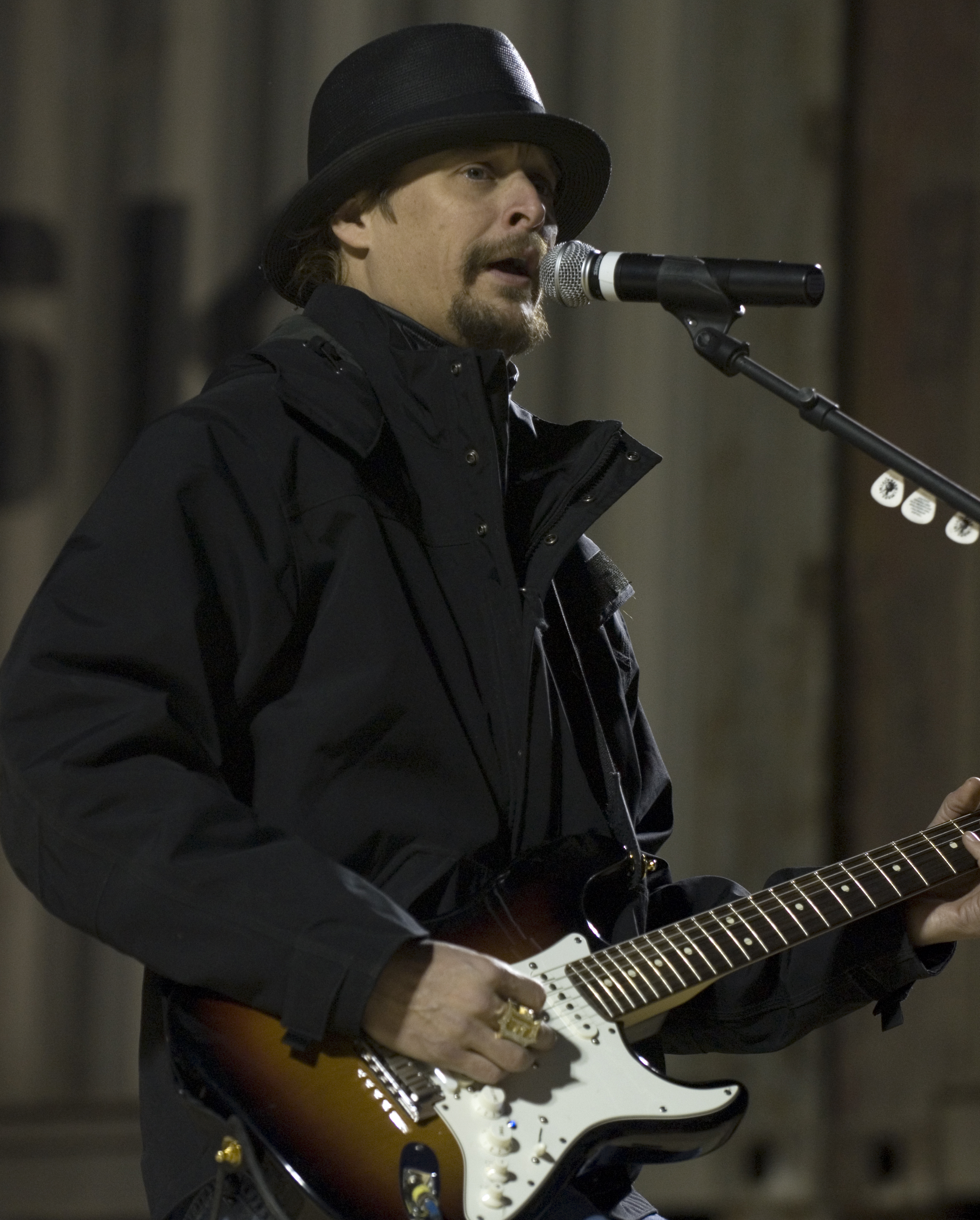 Kid Rock performs for service members during a United Services Organization tour at the Jordan-Hare Stadium, Al Asad Airbase, Iraq, Dec. 19. Kid Rock was part of a USO tour, which also featured comedian Lewis Black and singer Kellie Pickler.